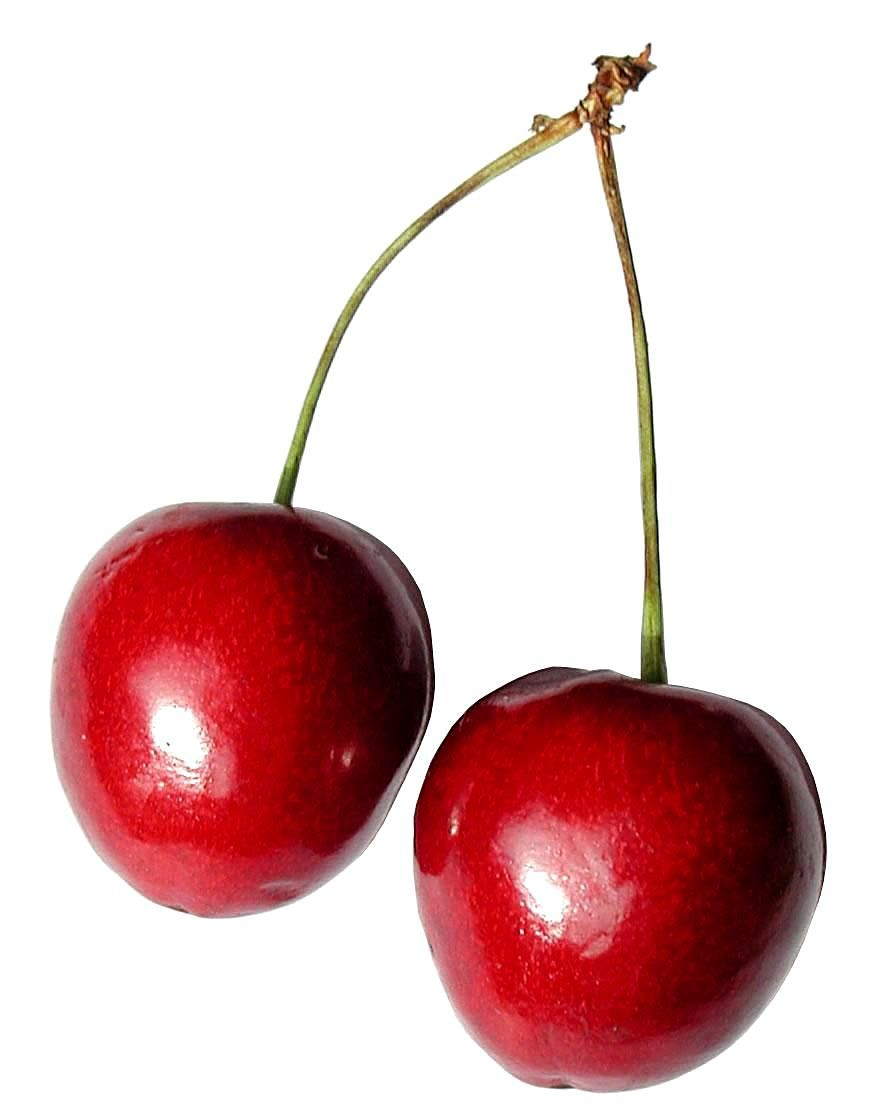 Image title: Cherry fruit on white background Image from Public domain images website